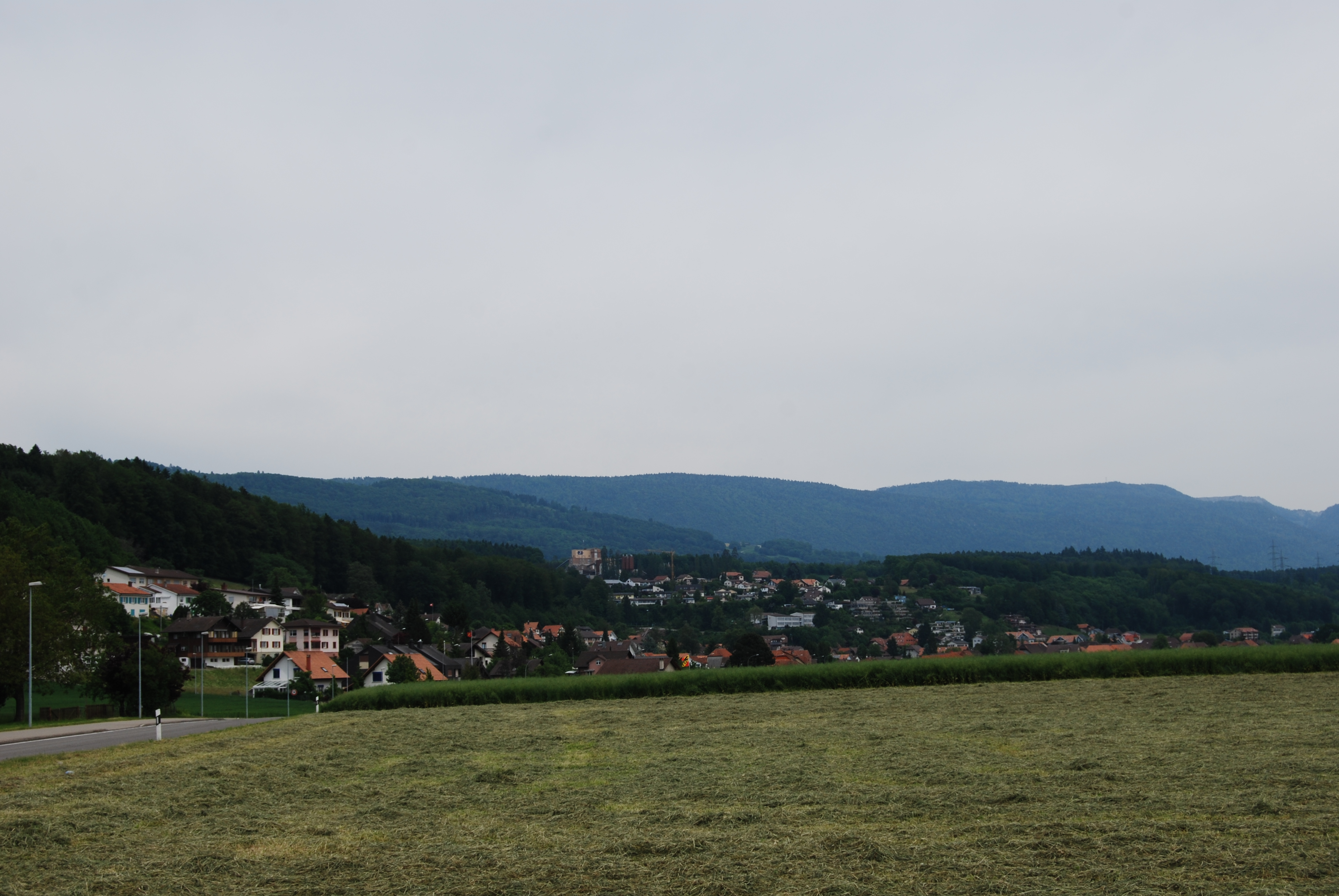 Safnern, canton of Bern, SwitzerlandEsperanto: Safnern, Kantono Berno, Svislando